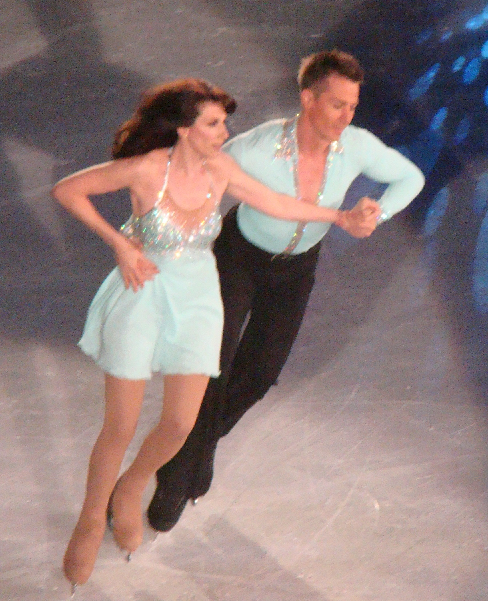 Gaynor Faye and Matt Evers on the Dancing on Ice tour in Manchester, England.